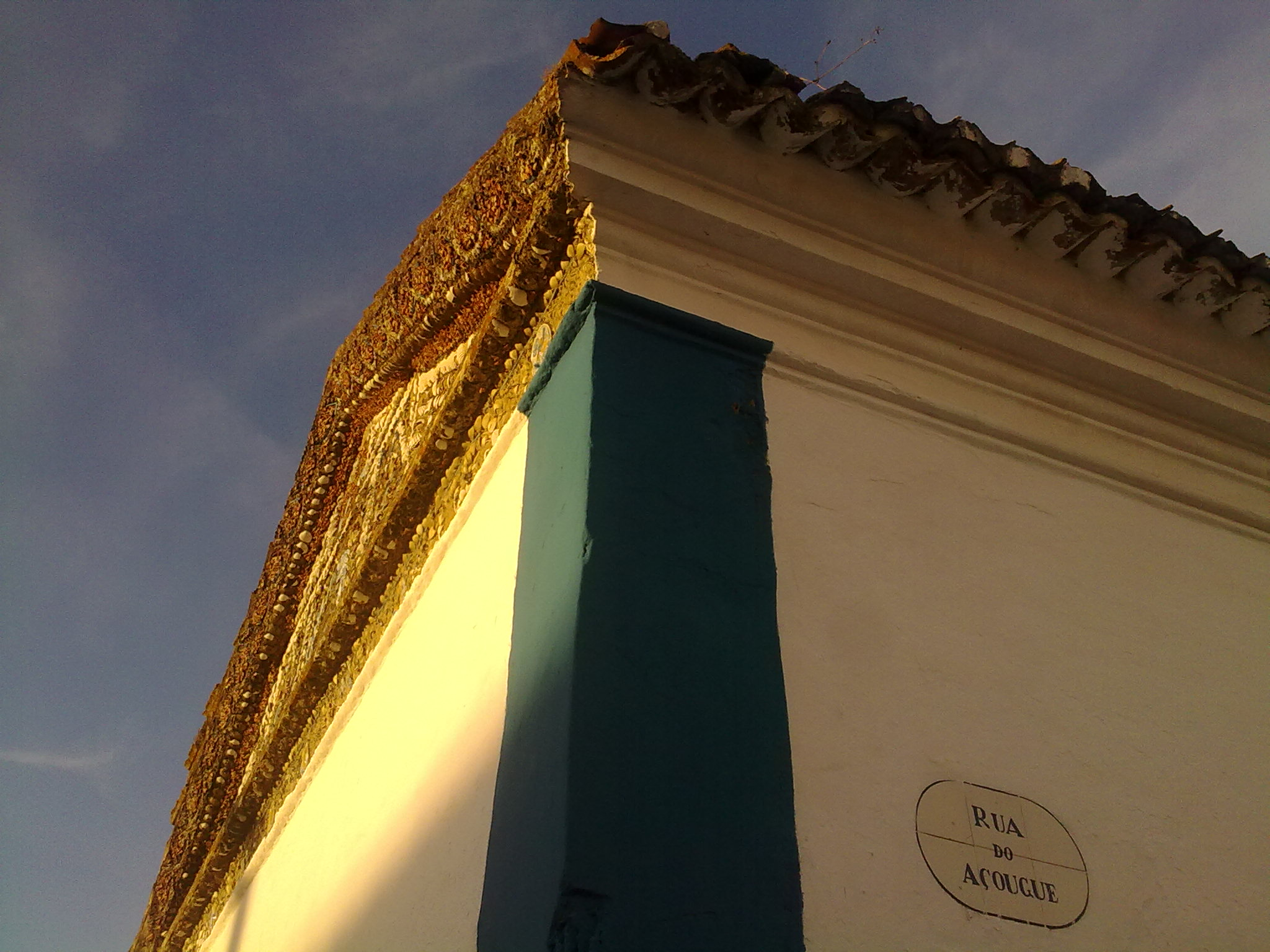 Detail from the façade of the "capela das conchas" chapel, , Alcáçovas, Portugal.